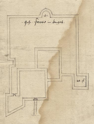 Plan of Sandham (Sandown, Wight) Castle, from A Survey of the Isle of Wight with plans of fortifications, 20 Nov 1559